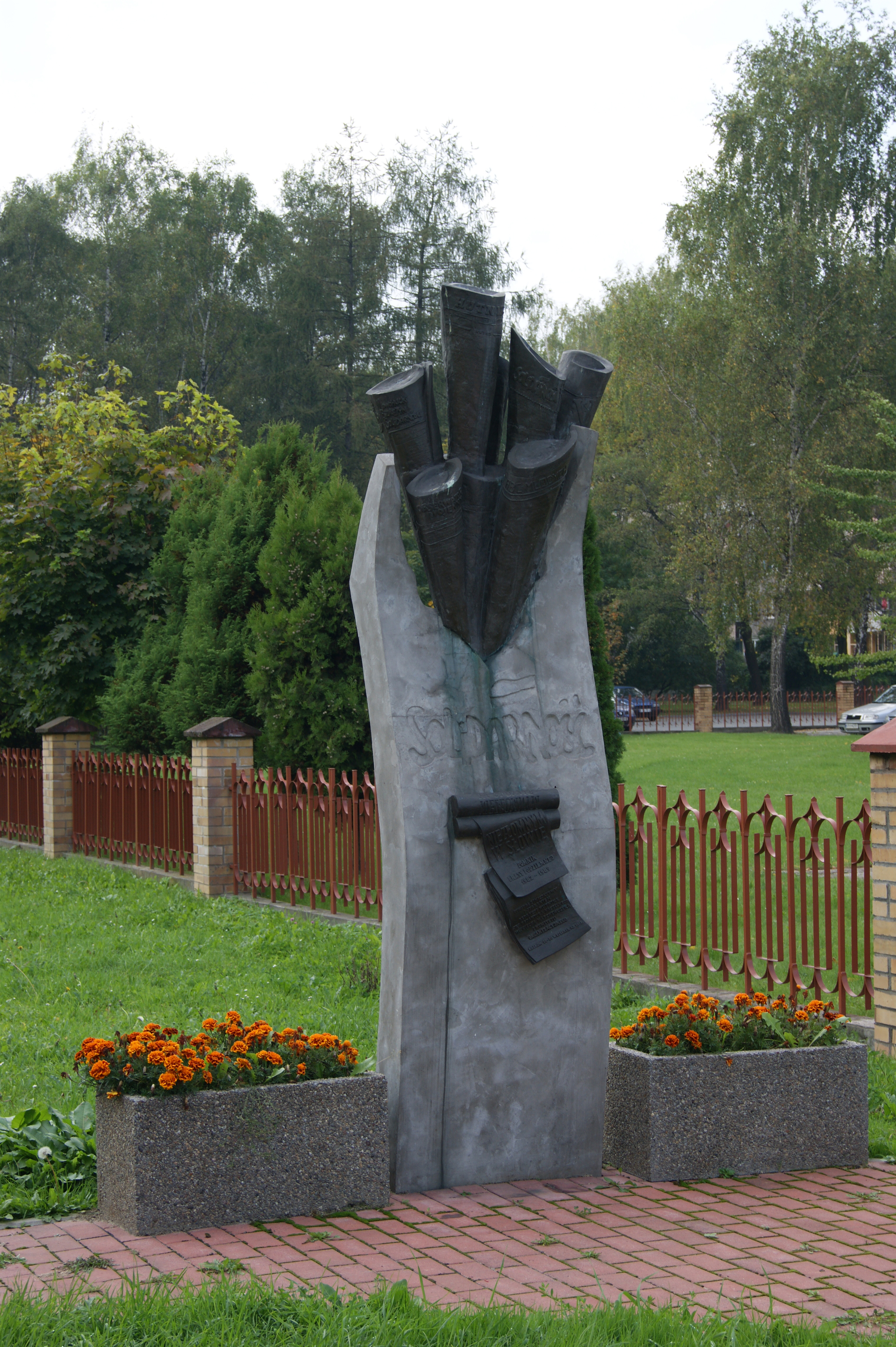 Samizdat Memorial, 7 os. Szklane Domy, Nowa Huta, Krakow, Poland